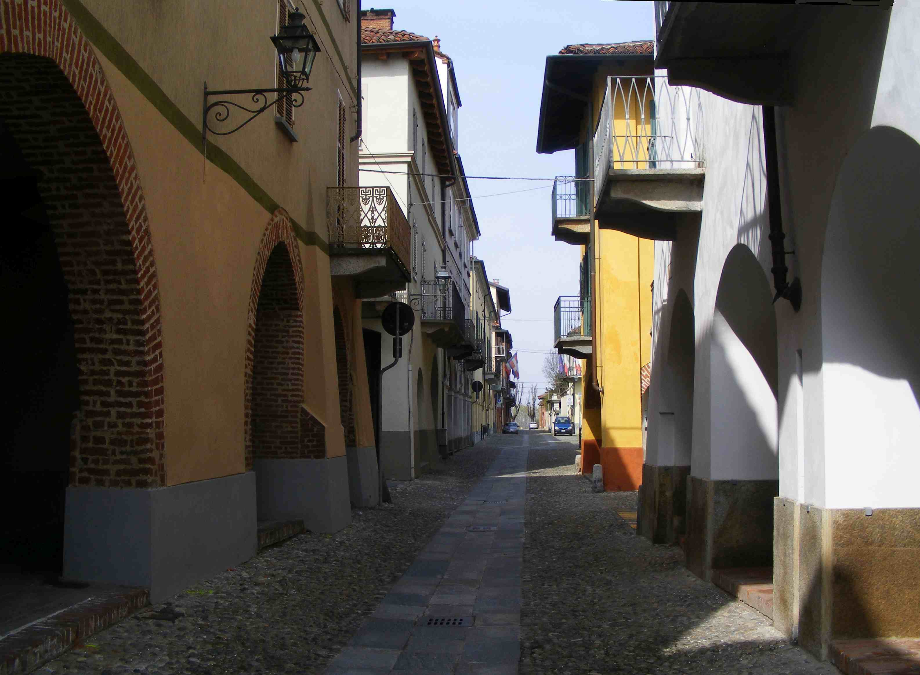 Poirino (TO, Italy): old town arcades